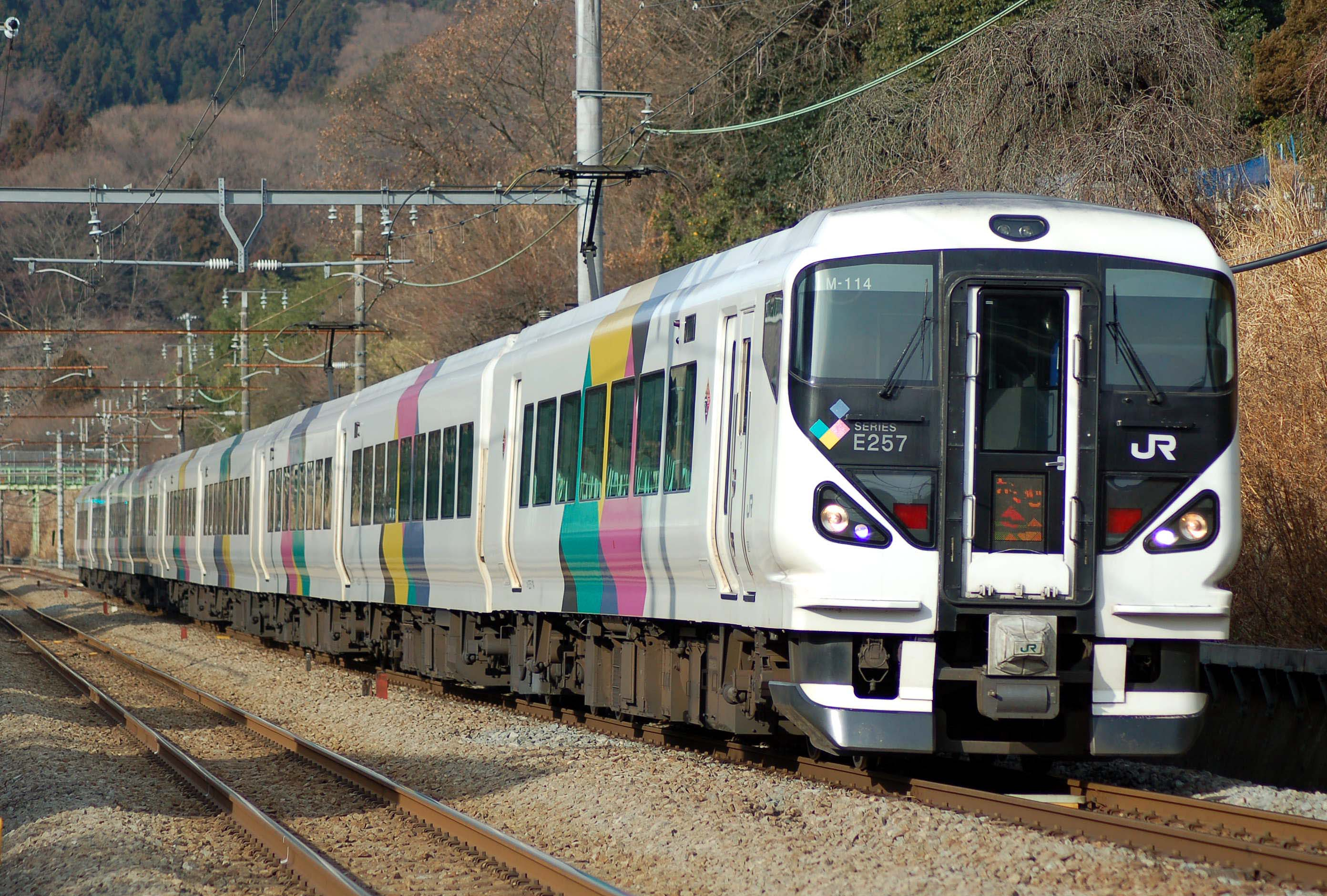 JR East E257 series EMU on a Kaiji limited express service